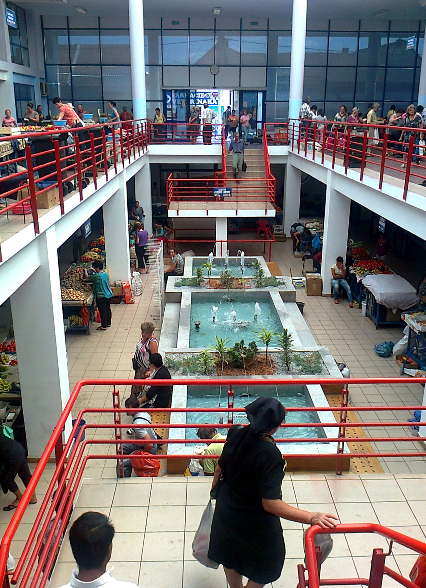 Interior of the Mircea Market in Drobeta-Turnu Severin.